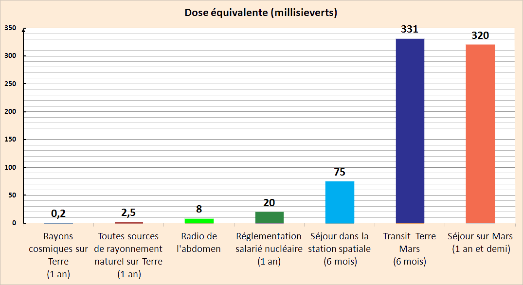 PIA17601: Radiation Exposure Comparisons with Mars Trip Calculation 12.09.2013 Measurements with the MSL Radiation Assessment Detector (RAD) on NASA's Curiosity Mars rover during the flight to Mars and now on the surface of Mars enable an estimate of the radiation astronauts would be exposed to on an expedition to Mars. NASA reference missions reckon with durations of 180 days for the trip to Mars, a 500-day stay on Mars, and another 180-day trip back to Earth. RAD measurements inside shielding provided by the spacecraft show that such a mission would result in a radiation exposure of about 1 sievert, with roughly equal contributions from the three stages of the expedition. A Sievert is a measurement unit of radiation exposure to biological tissue. This graphic shows the estimated amounts for humans on a Mars mission and amounts for some other activities. NASA's Jet Propulsion Laboratory, Pasadena, Calif., manages the Mars Science Laboratory Project and the mission's Curiosity rover for NASA's Science Mission Directorate in Washington. The rover was designed and assembled at JPL, a division of the California Institute of Technology in Pasadena. More information about Curiosity is online at and